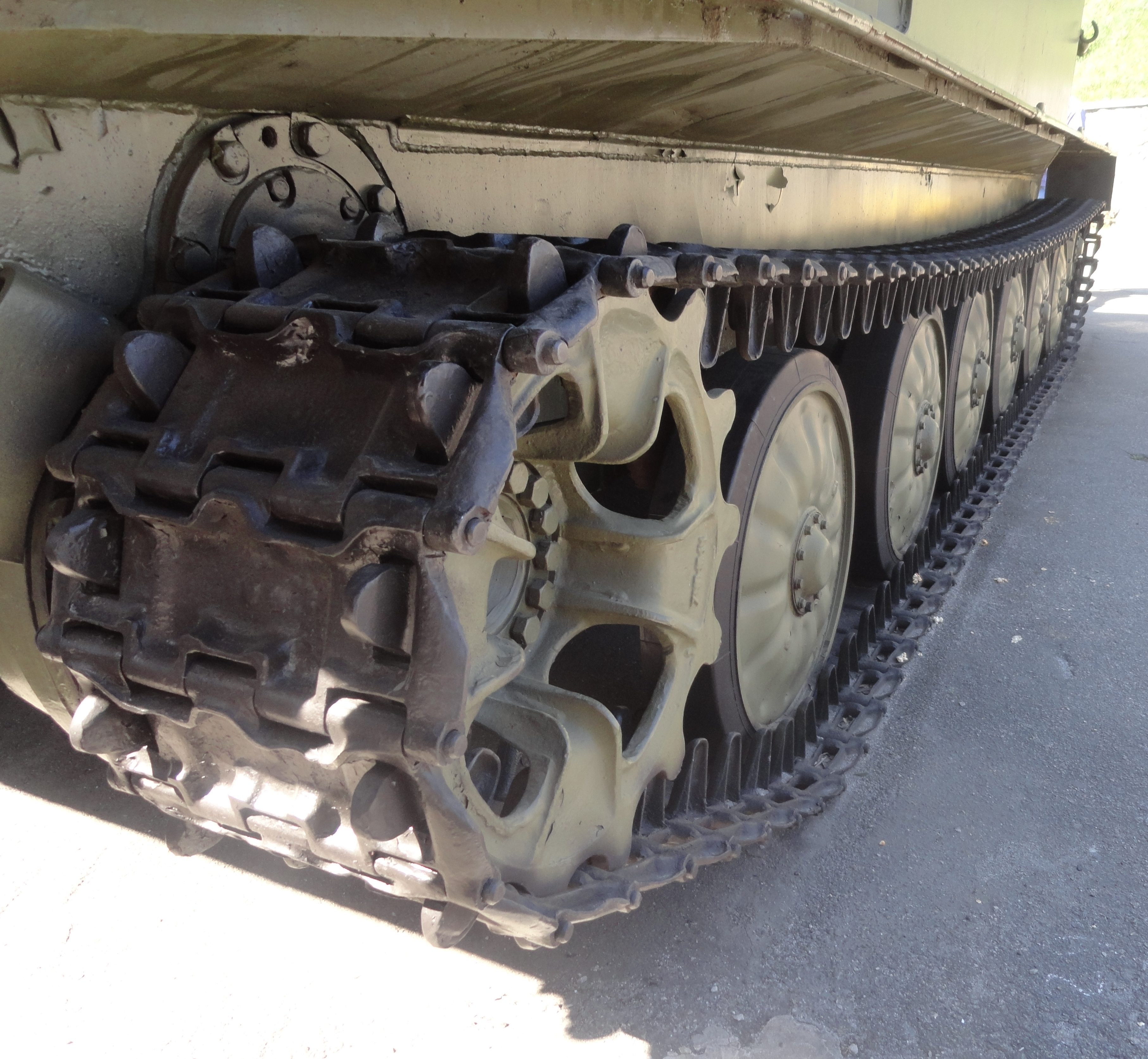 Tank of ПТ-76. Display of museum of Great Patriotic war, Kyiv, Ukraine.